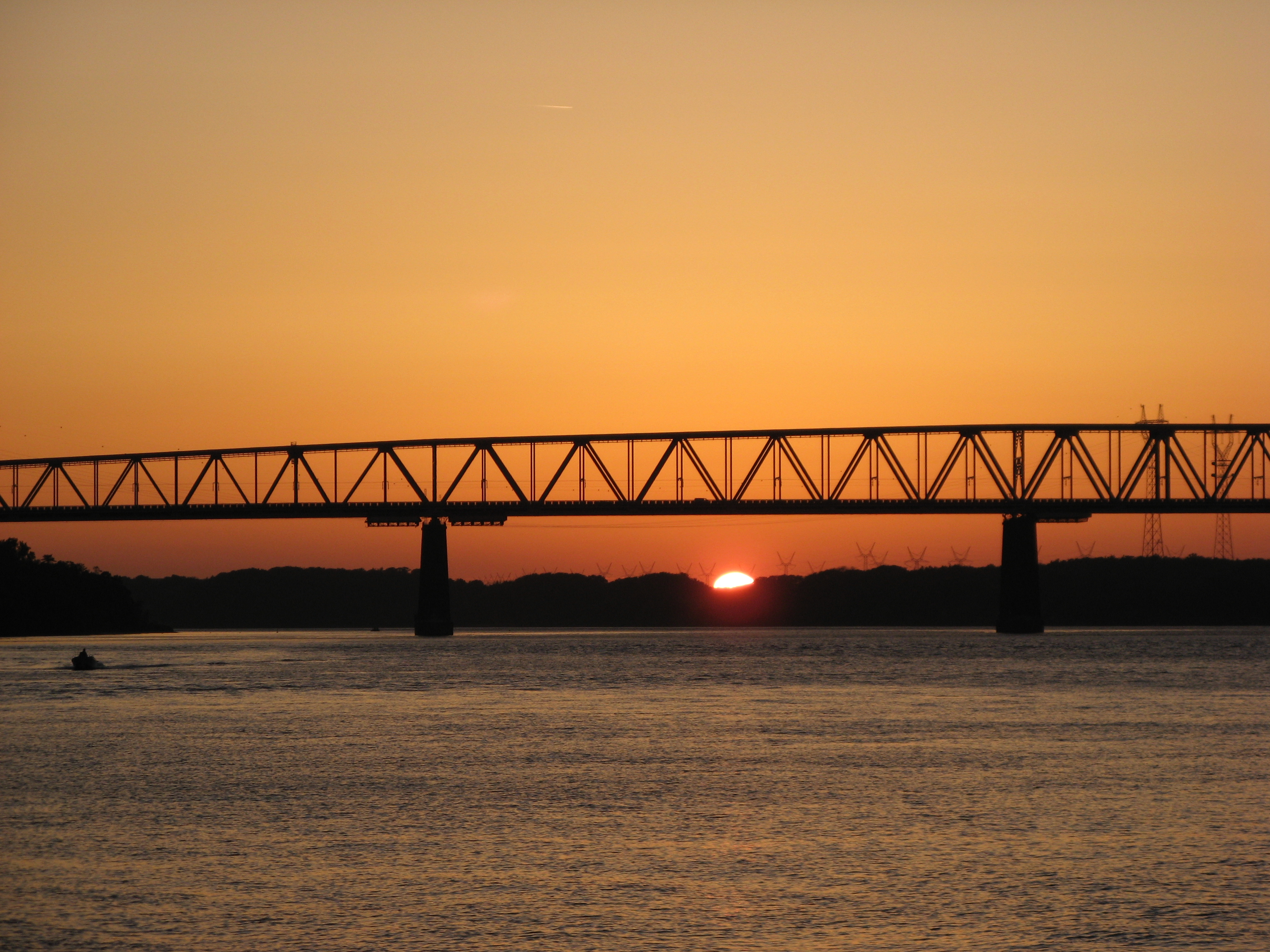 Sunset and Lille Bælt Bridge, Middelfart, DenmarkLille Bælt Bridge Sunset